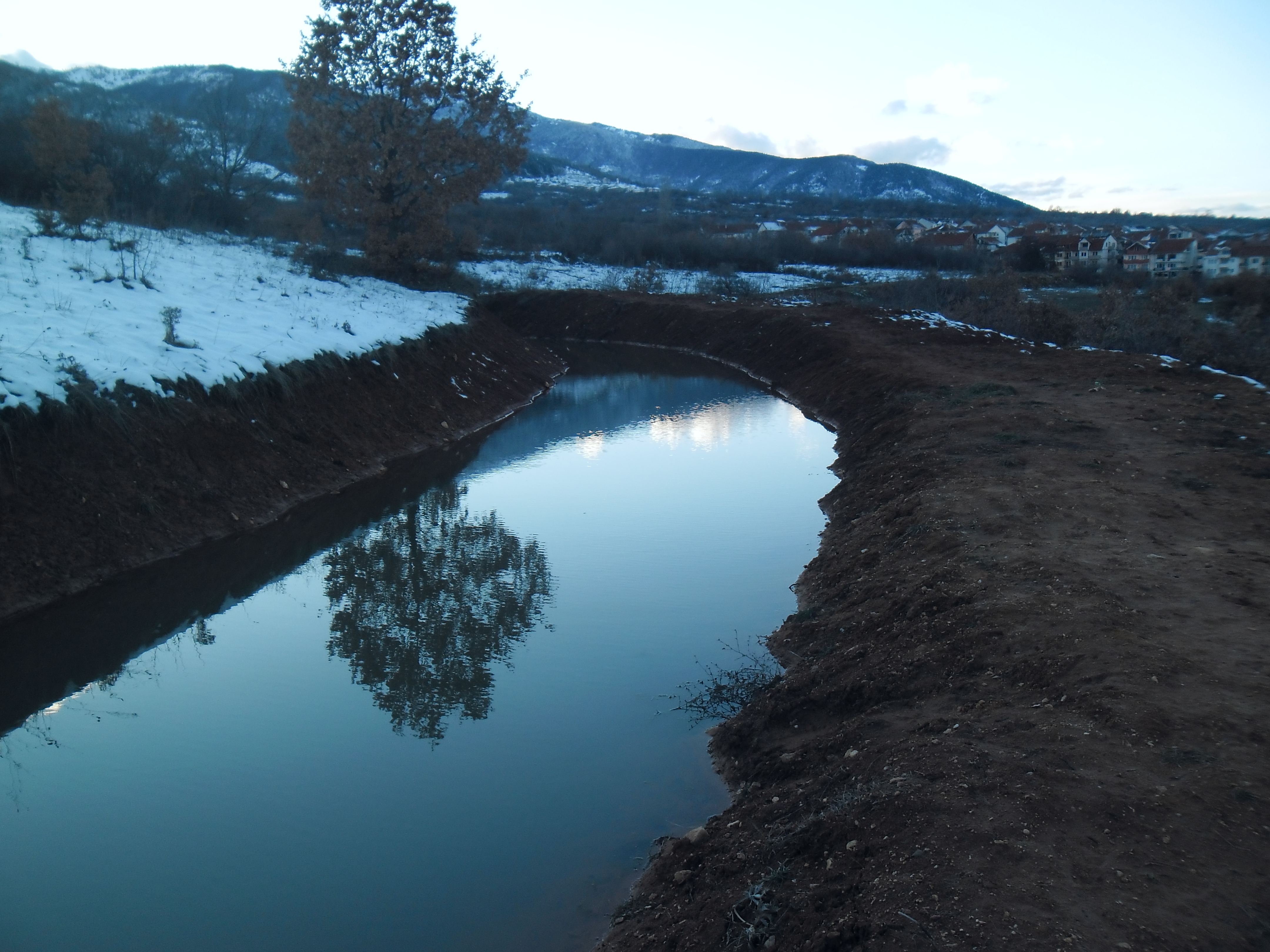 A picture of a little river on sunset.